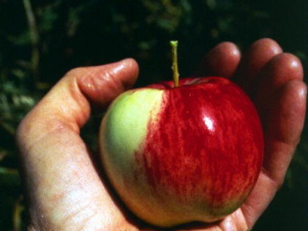 Wild Malus sieversii apple, Tarbagatai mountains, Kazakhstan.